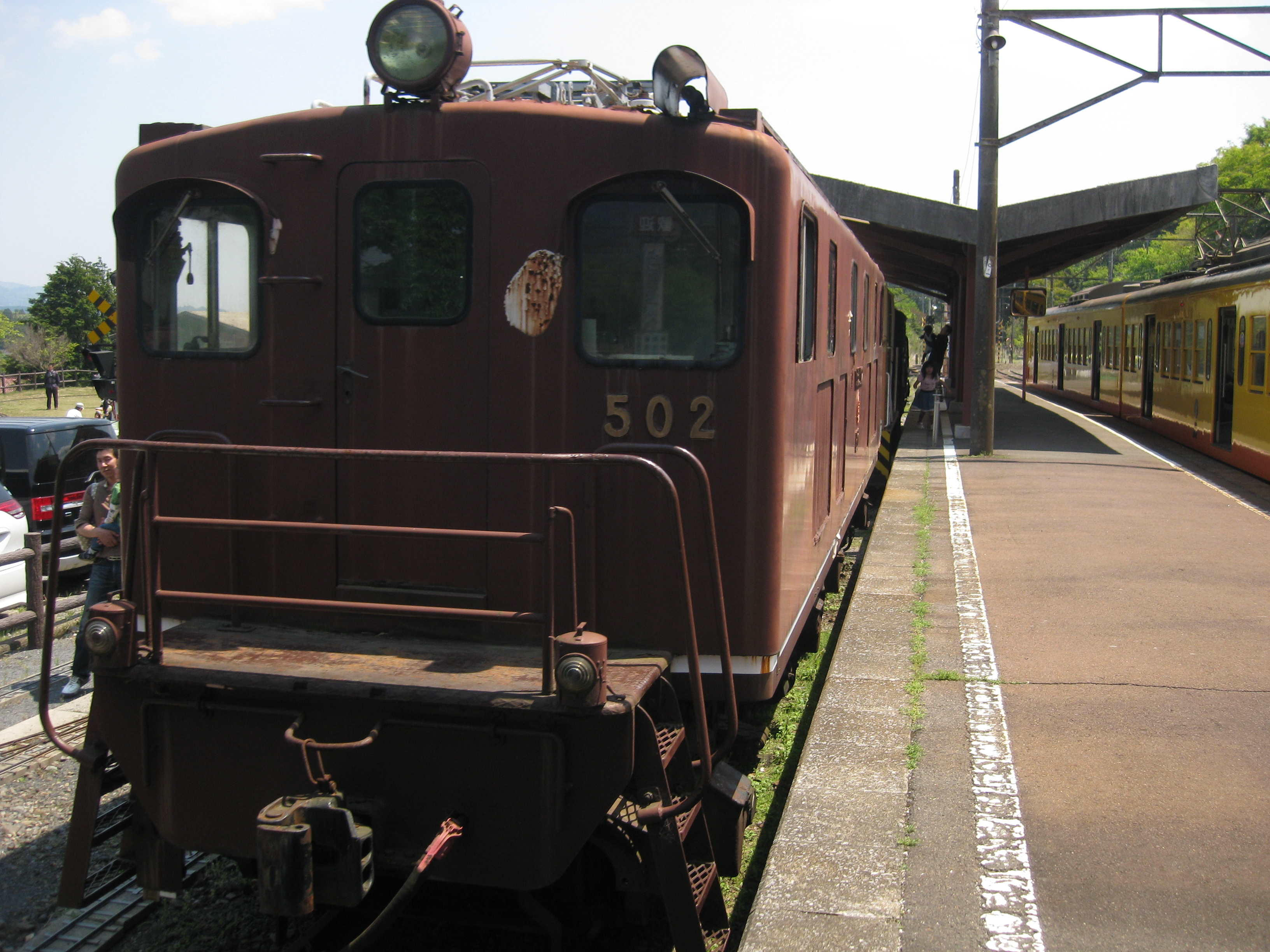 Electric locomotive of Sangi Railway (Taken at Nishifujiwara Station:Sangi Railway Sangi Line)